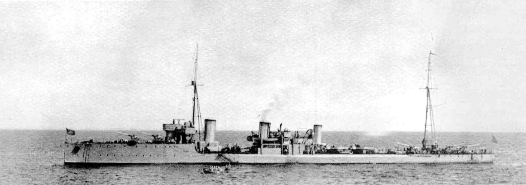 Soviet destroyer Karl Marks.